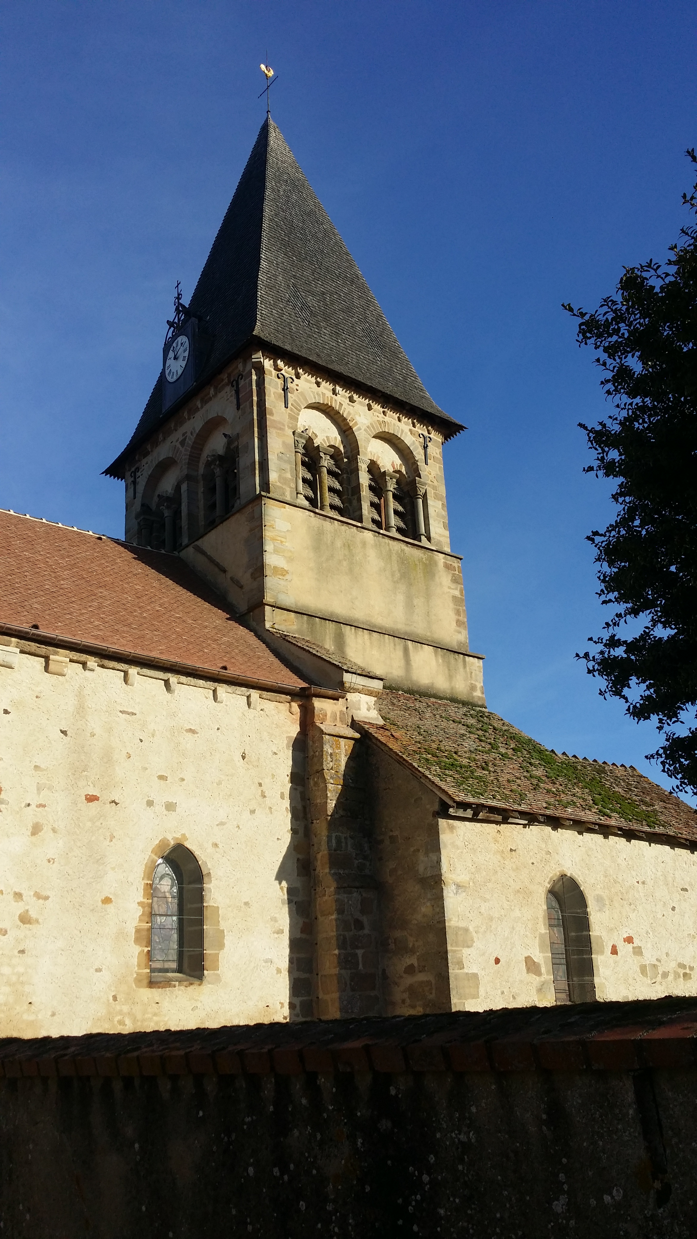 Eglise Saint Pierre Theneuille